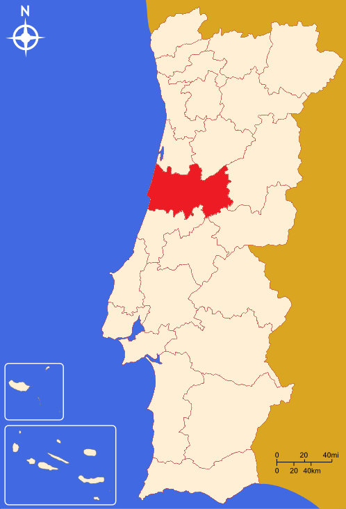 Comunidade Intermunicipal da Região de Coimbra